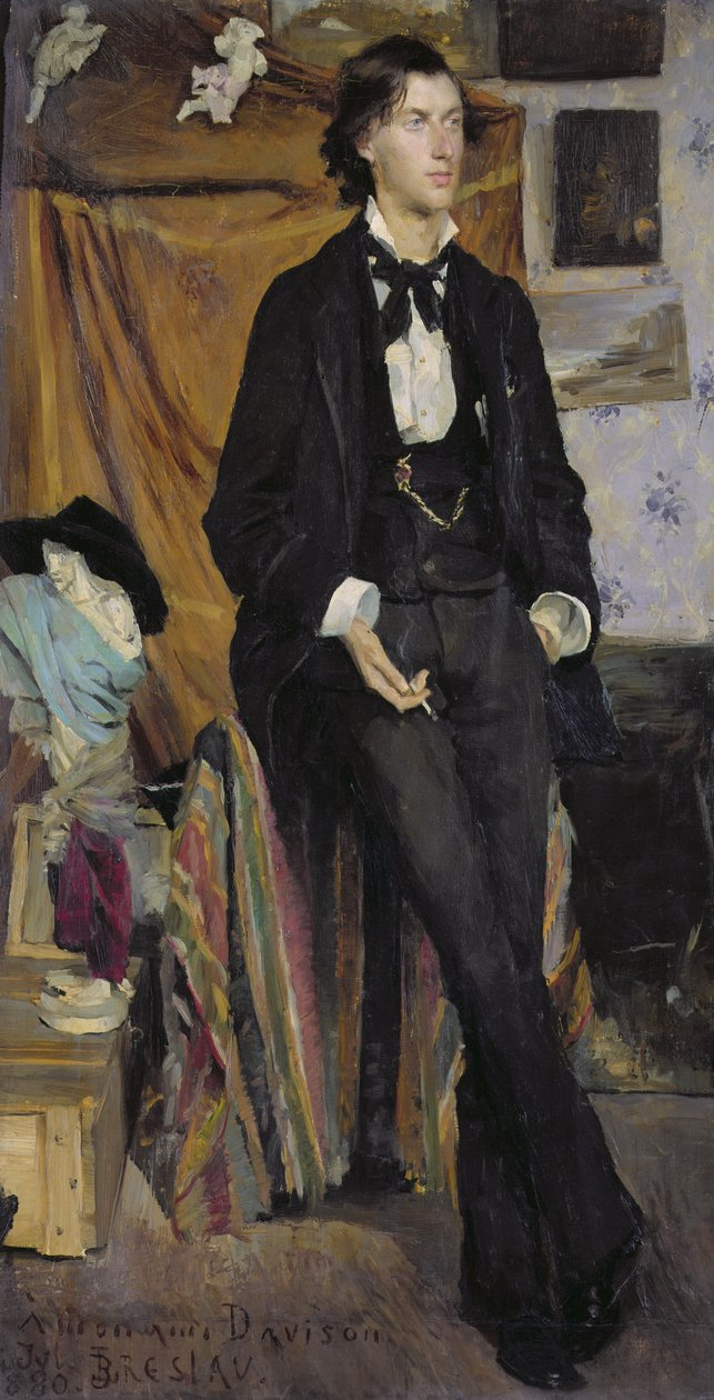 Portrait of Henry Davison, English poet, Paris, musée d'Orsay